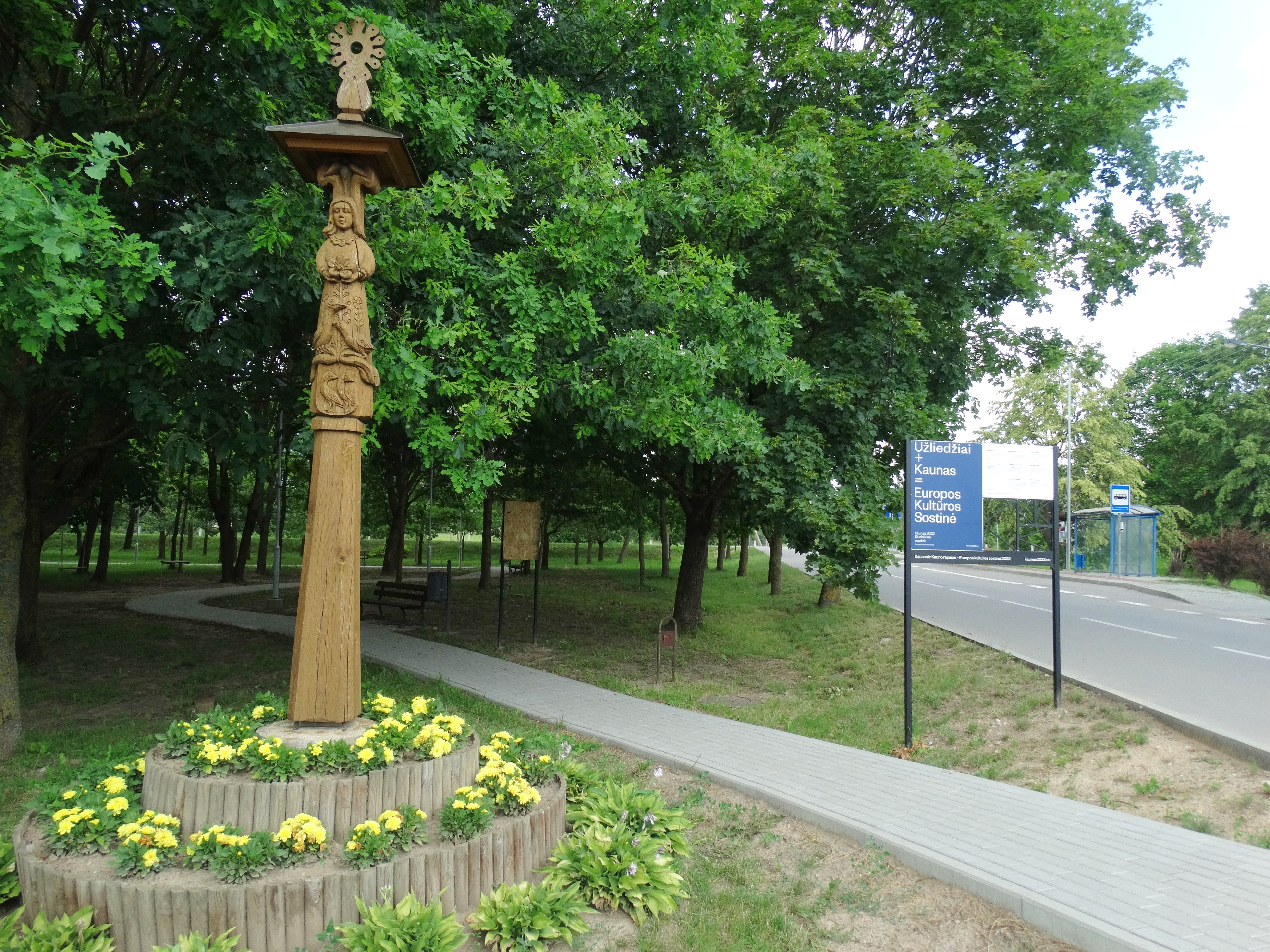 Užliedžiai,Kaunas District, Lithuania